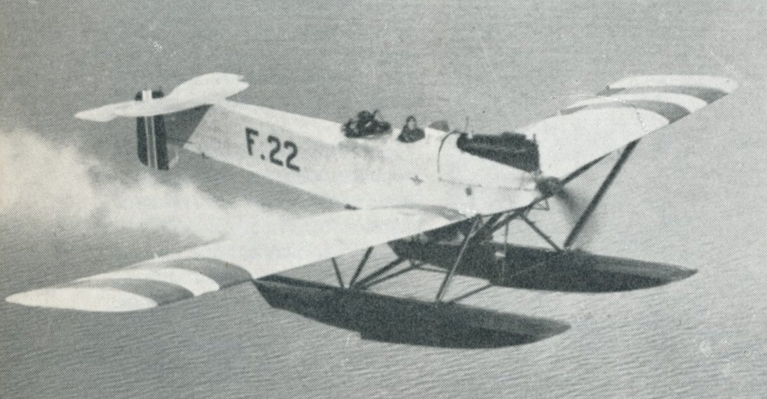 Hansa Brandenburg W.33, Marinens flyvåpen. F.22 was written off in 1931